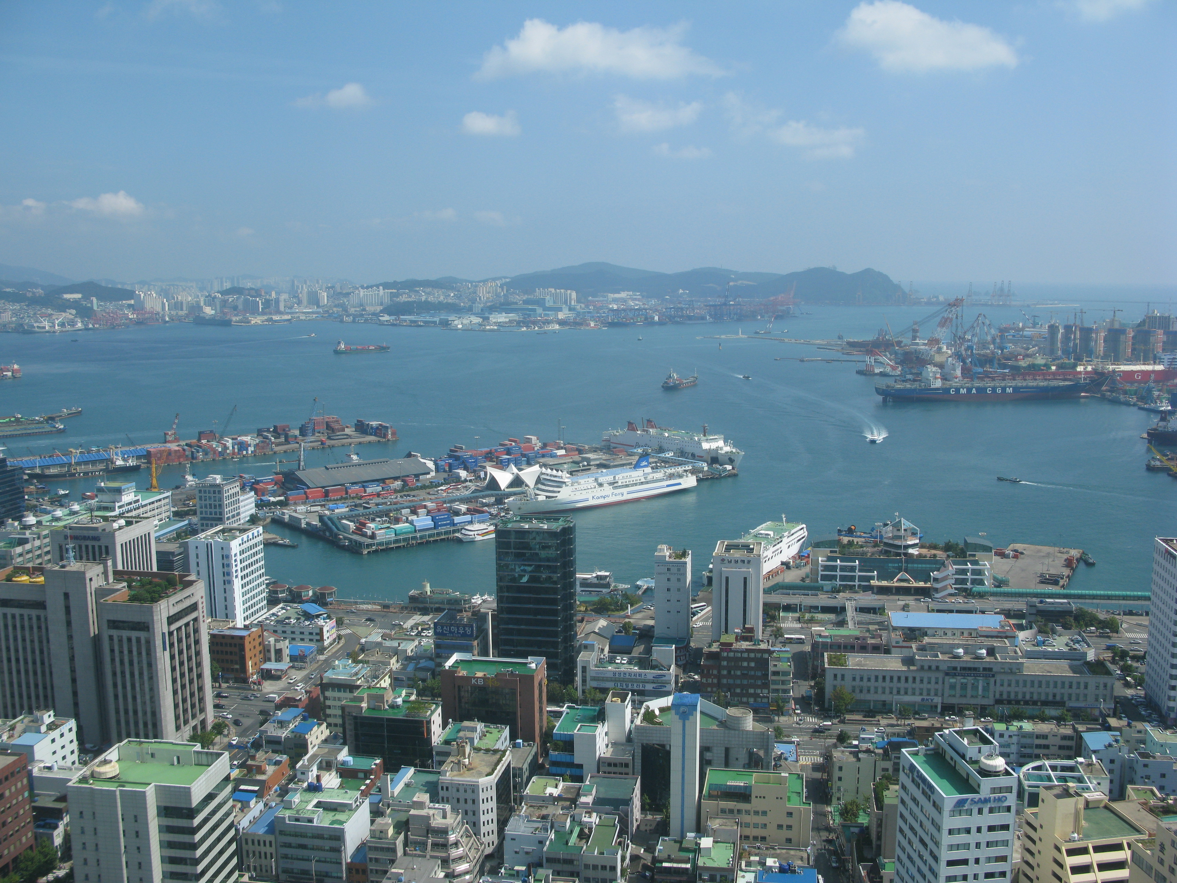 Busan harbour